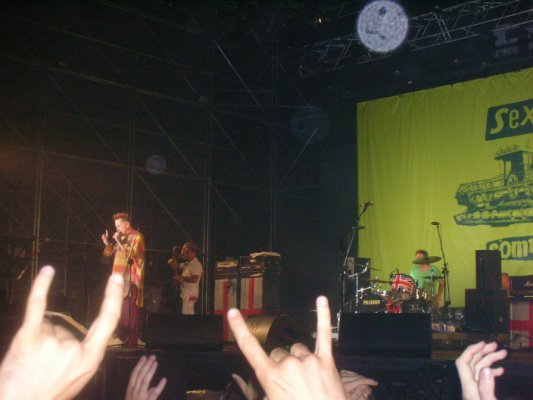 Sex Pistols in concert in Turin, Italy.